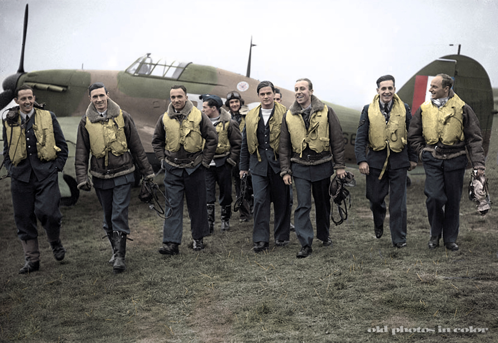 303 squadron pilots. From the left side: P/O Ferić, F/Lt Kent, F/O Grzeszczak, P/O Radomski, P/O Zumbach, P/O Łukuciewski, F/O Henneberg, Sgt. Rogowski, Sgt. Szaposznikow (in 1940). Photo was colorized.